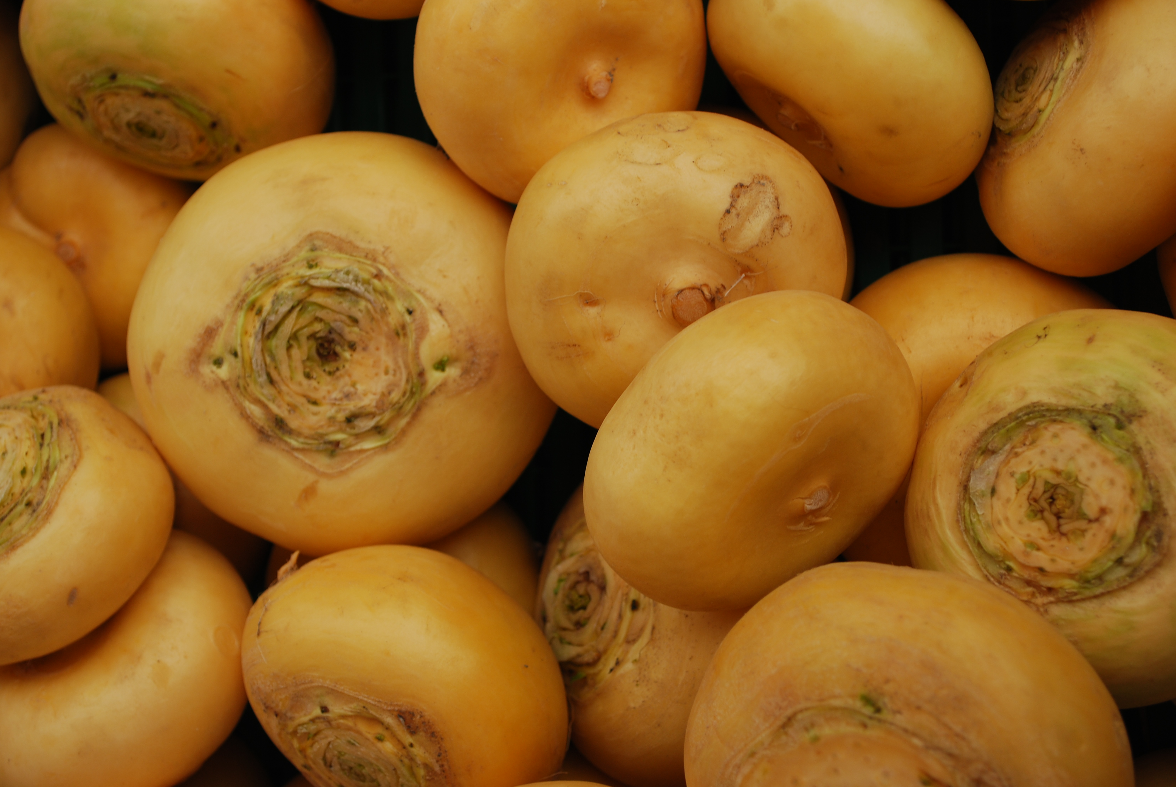 A Northern Norwegian variety of turnip called Målselvnepe.